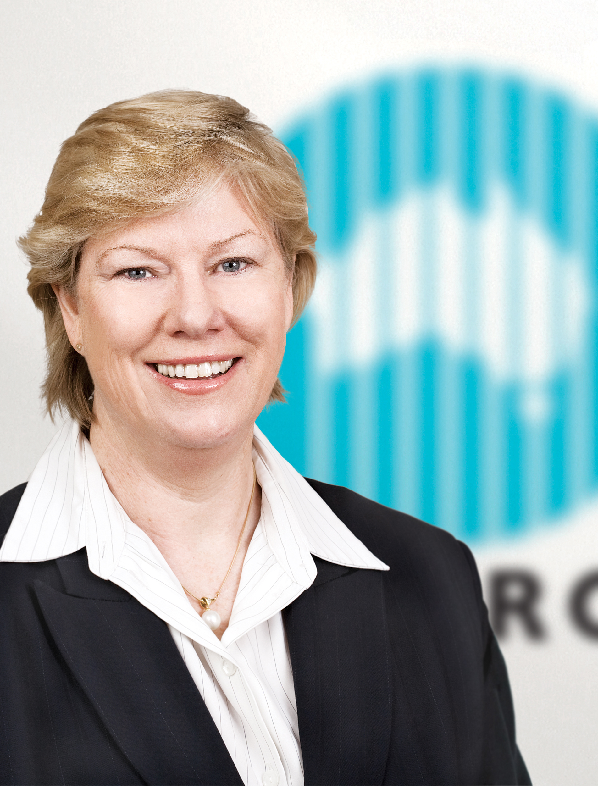 Dr Megan Clark was appointed as Chief Executive of CSIRO for a five year term commencing in January 2009.